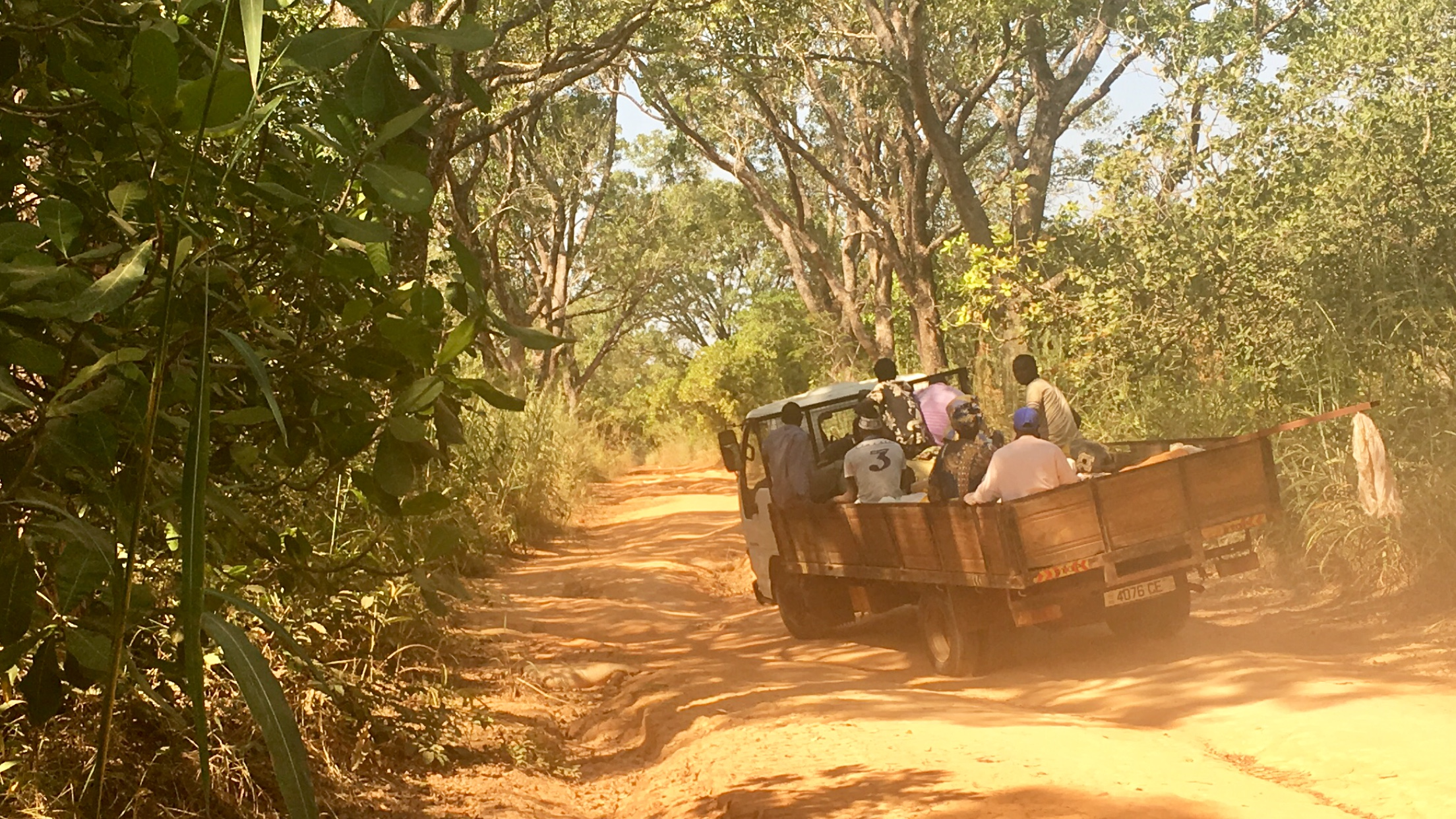 This is an image with the theme "Africa on the Move or Transport" from: Guinea-Bissau